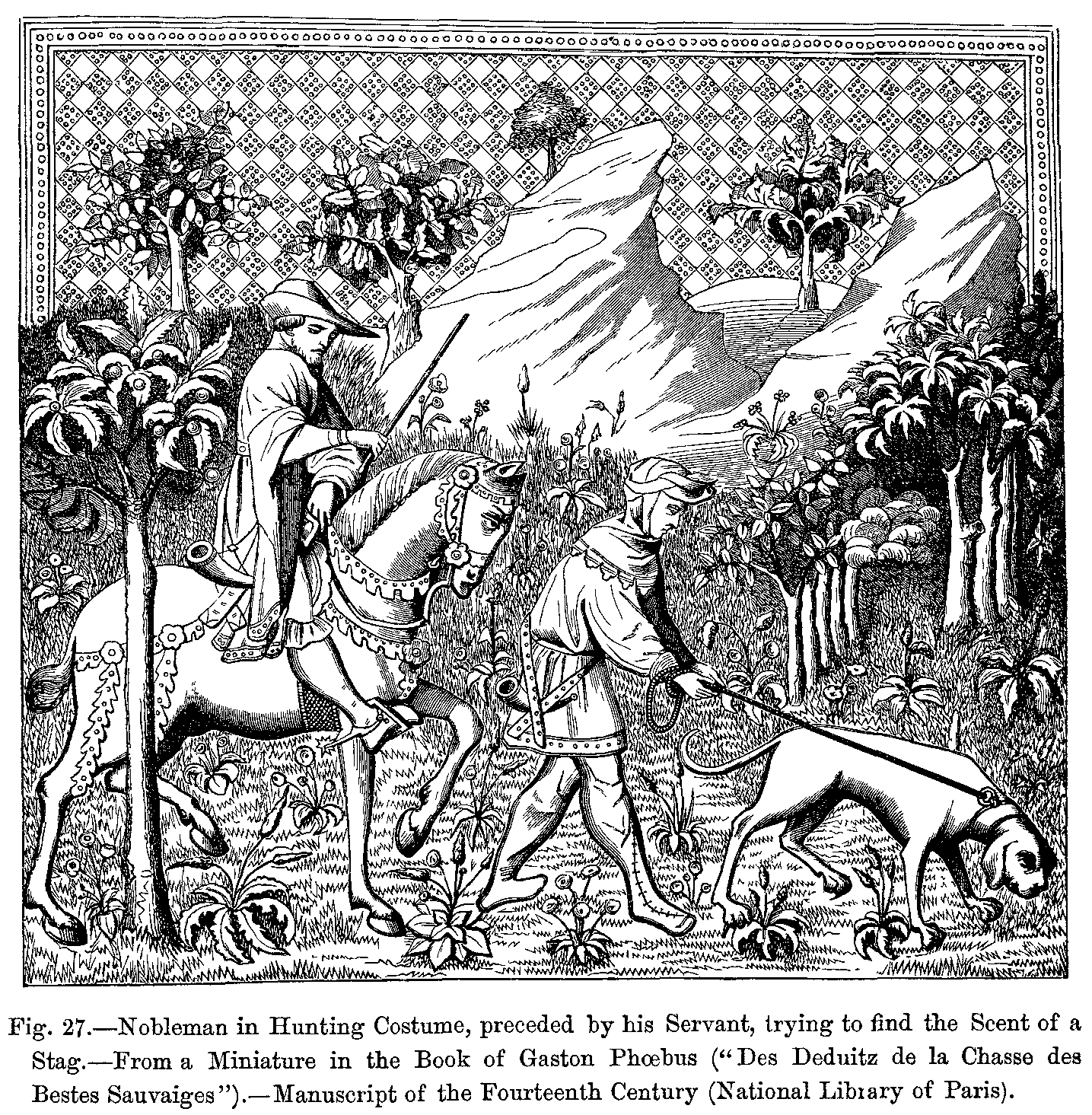 Nobleman in Hunting Costume, preceded by his Servant, trying to find the Scent of a Stag.--From a Miniature in the Book of Gaston Phoebus ("Des Deduitz de la Chasse des Bestes Sauvaiges").--Manuscript of the Fourteenth Century (National Library of Paris). Project Gutenberg text 10940